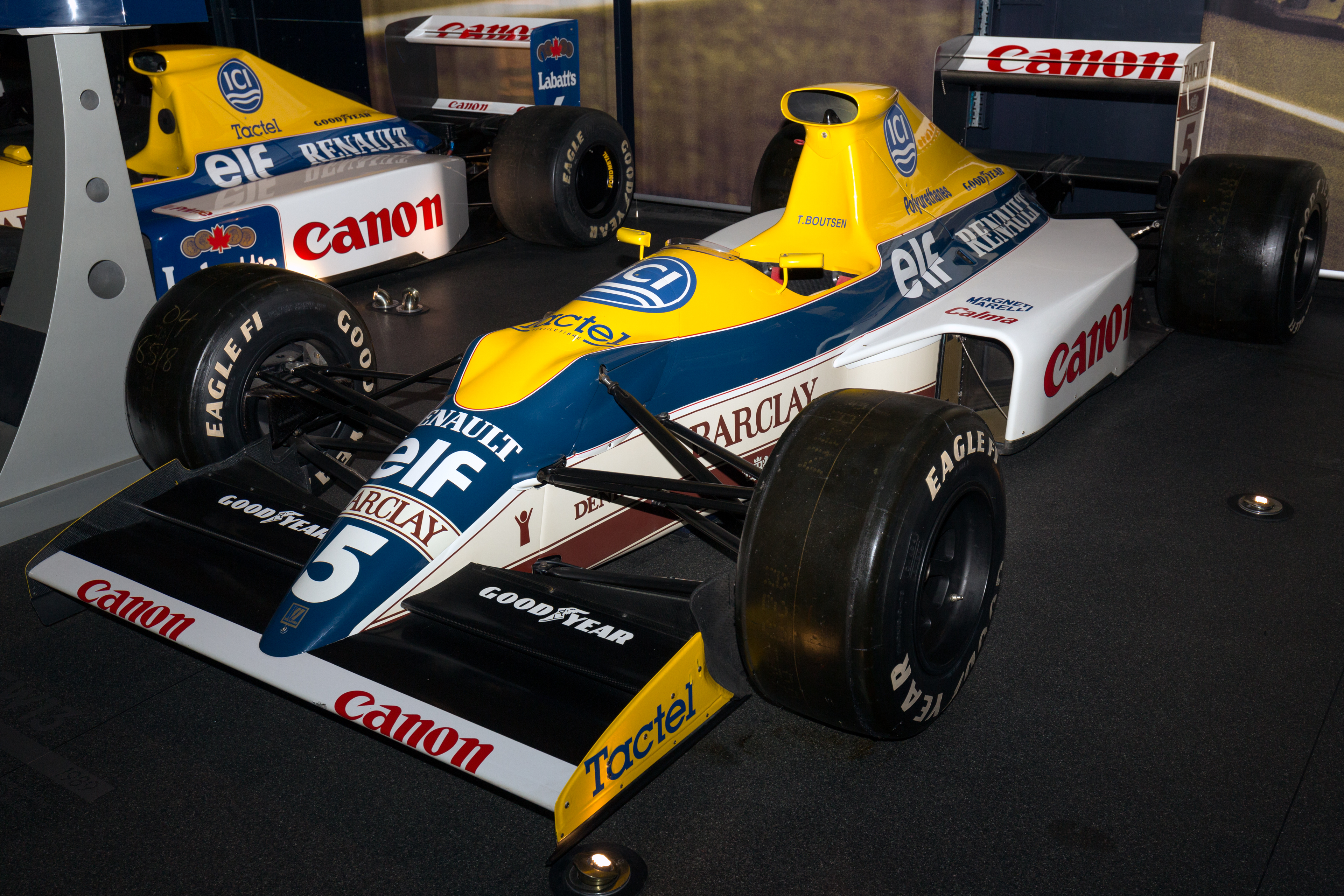 Williams Conference Centre (Grove): Williams FW13 of Thierry Boutsen